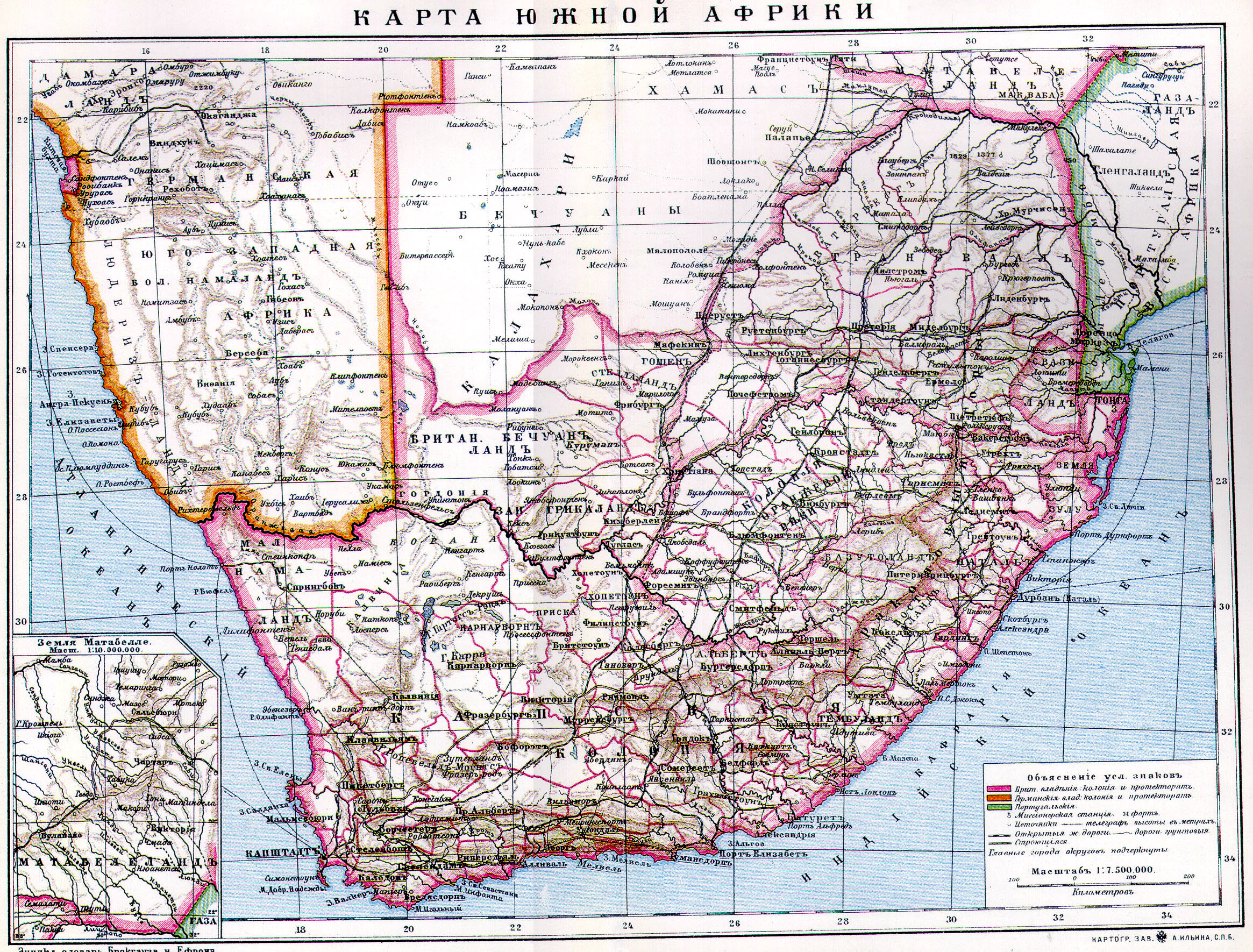 Illustration from Brockhaus and Efron Encyclopedic Dictionary (1890—1907)